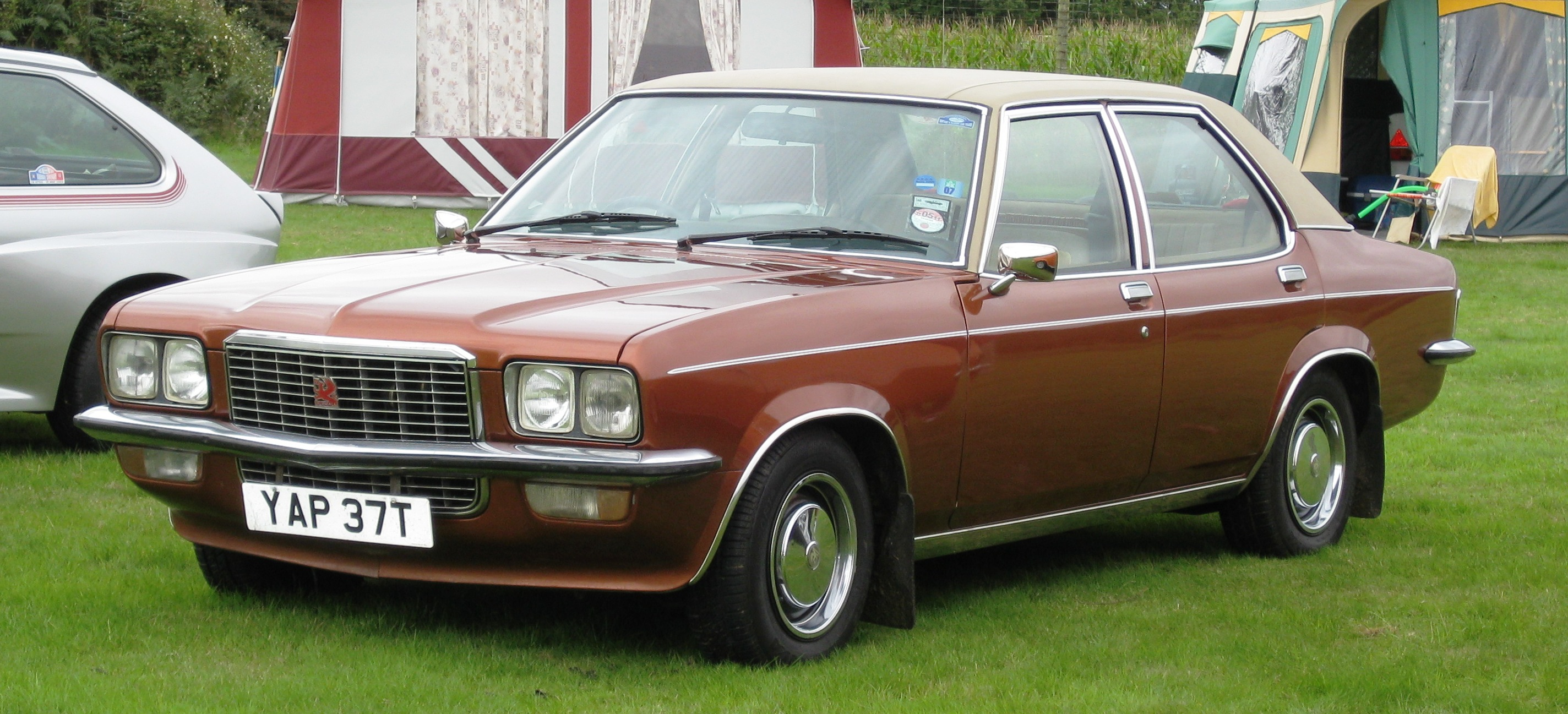 Vauxhall VX2300 GLS. A rebranding of the Vauxhall Victor FE towards the end of the model life, designed to extend that model life at a time when investment cash for new models was in short supply. The VX was in due course replaced by an Opel Omega albeit with a slinkier nose, and badged, for UK buyers, as a Vauxhall Carlton